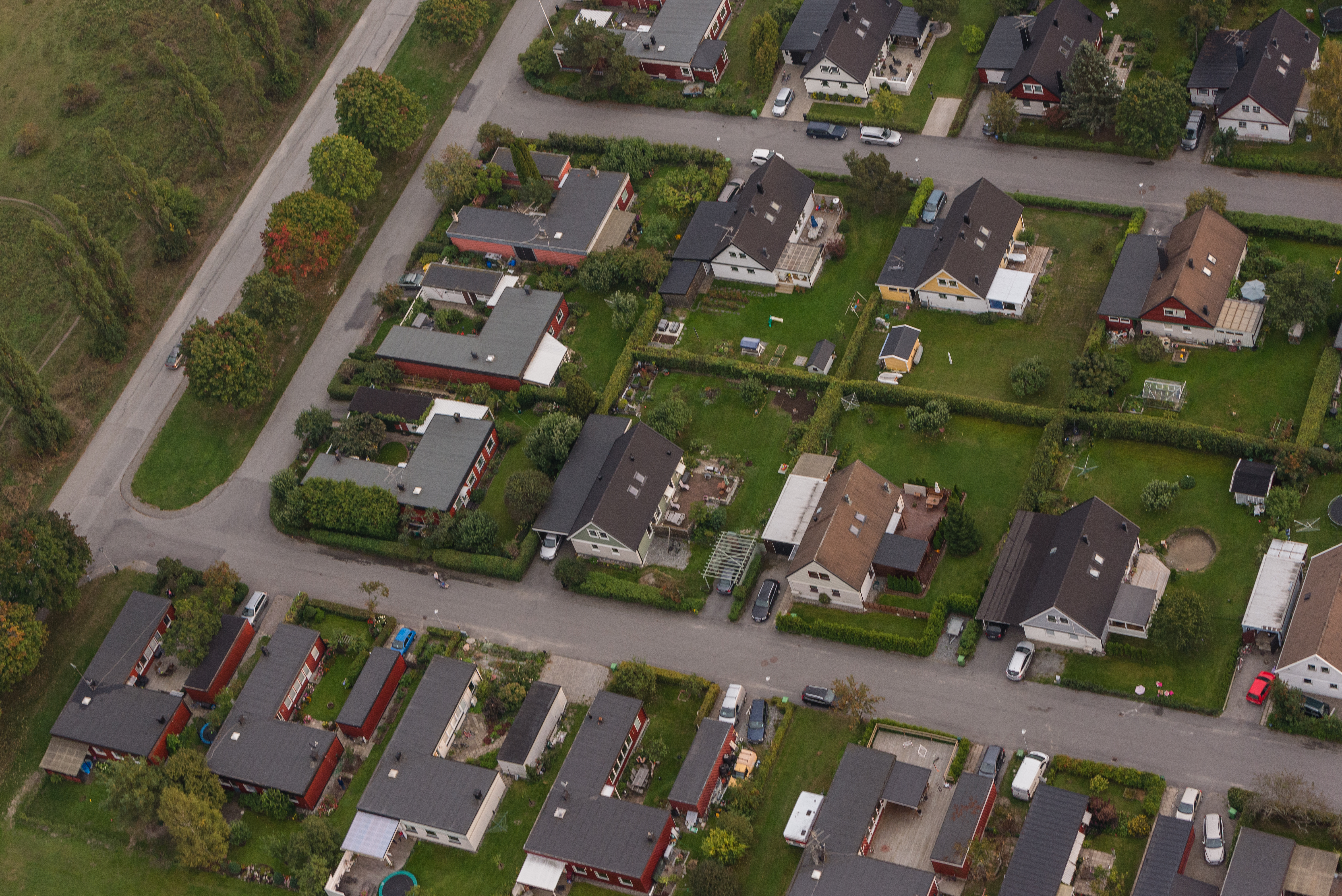 Stenhamra